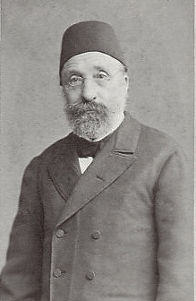 Scanned old photograph of Ottoman statesman Midhat Pasha. (18 October 1822 – 26 April 1883)